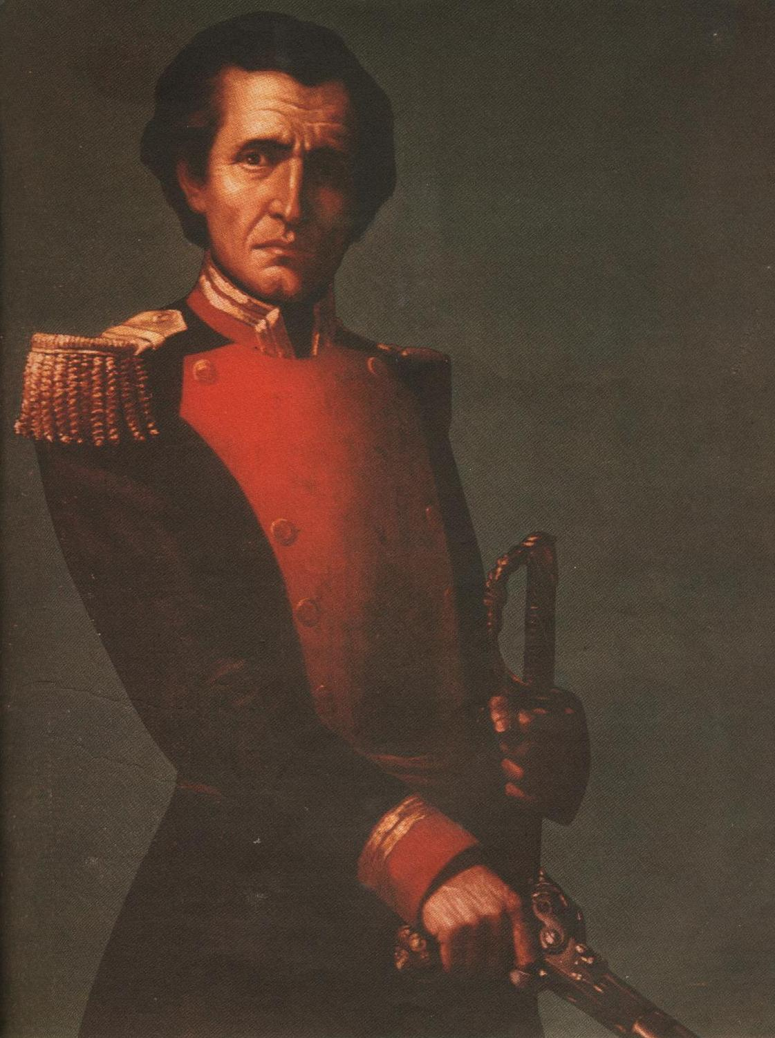 One of 30 portraits by the Artist at the Current location that he completed, mostly 1874-1876.